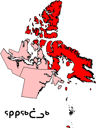 Nunavut Territory highlighting Qikiqtaaluk Region (Baffin Region) Created and uploaded by Keith Edkins